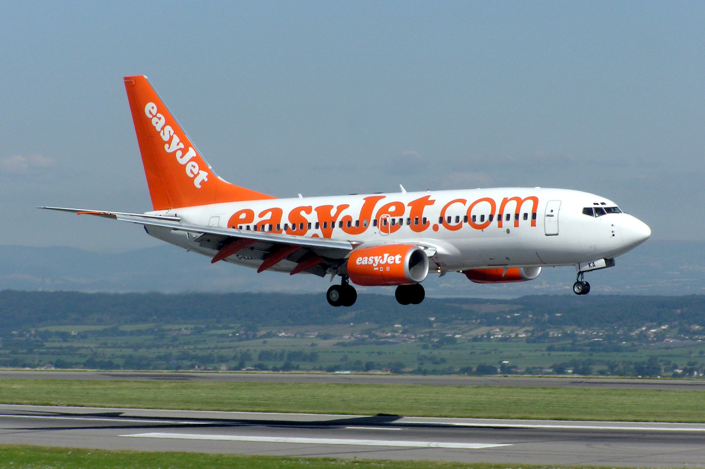 easyJet Boeing 737-700 (registered in the UK as G-EZKA) lands at Bristol International Airport, Bristol, England. Photographed by Adrian Pingstone in August 2005 and released to the public domain.